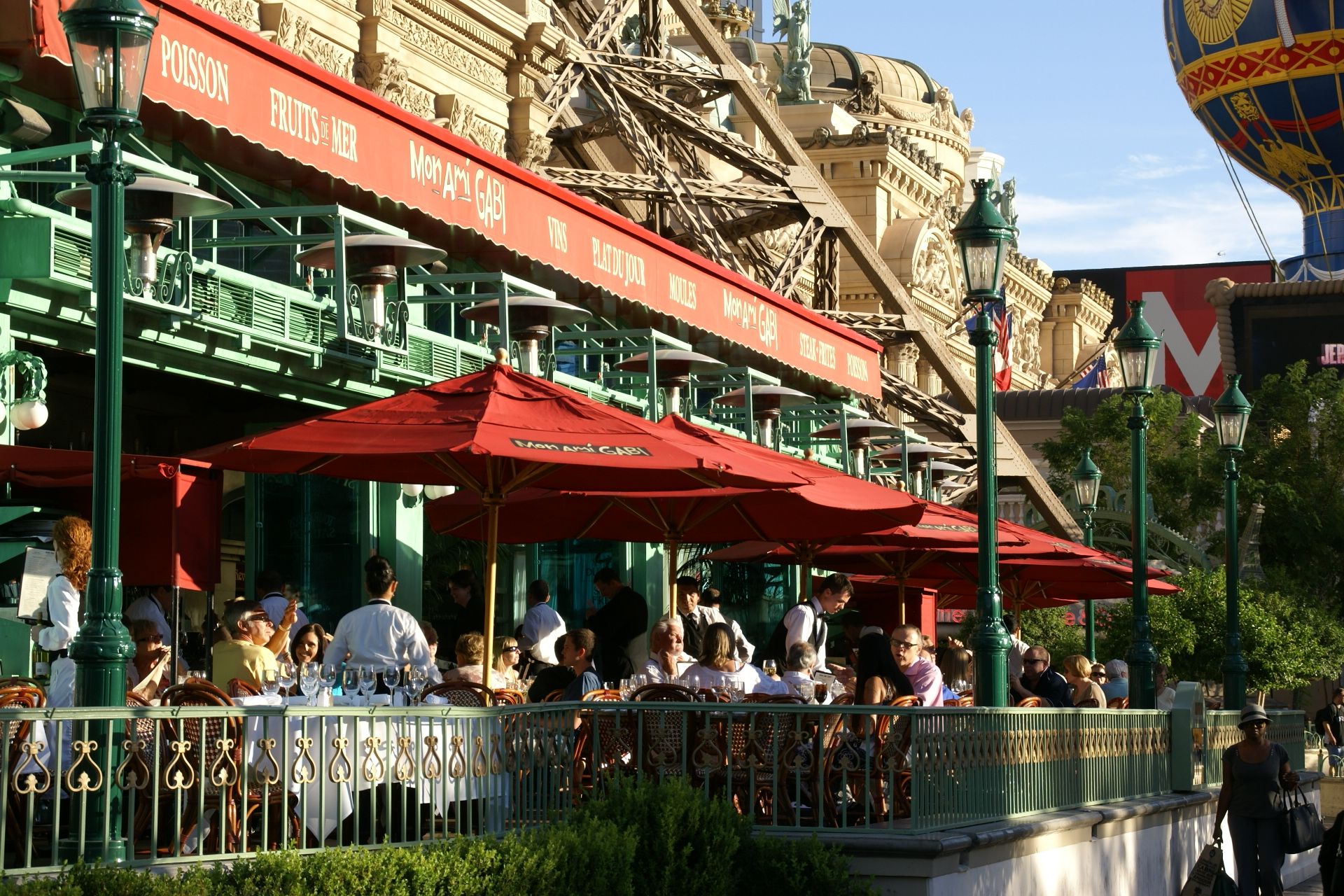 Bistro at the Paris Hotel in Las Vegas, Nevada, USA